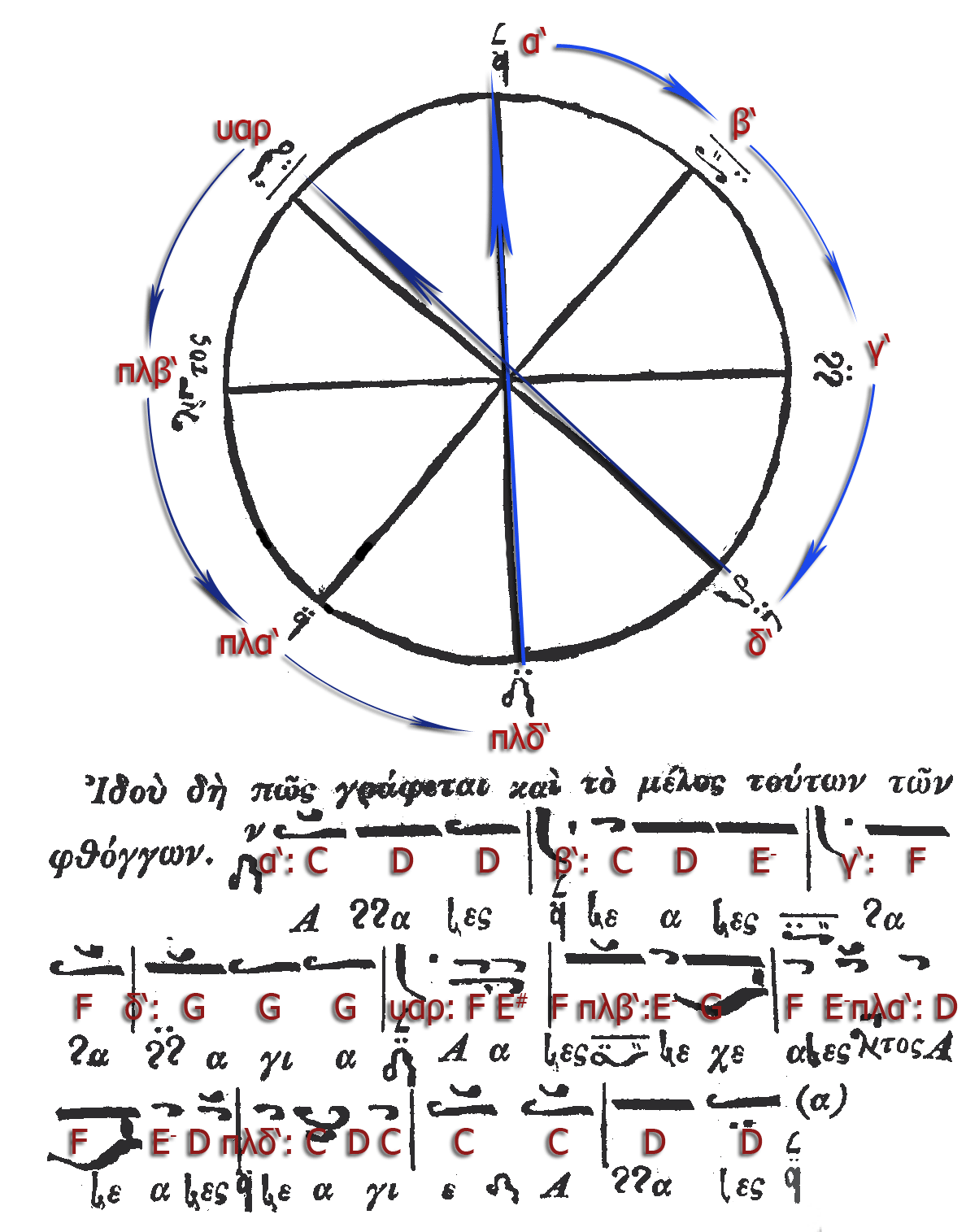 Interpretation of the Koukouzelian wheel by Chrysanthos, the introduced signs became part of the modal signatures used in Modern Byzantine Notation since 1814.